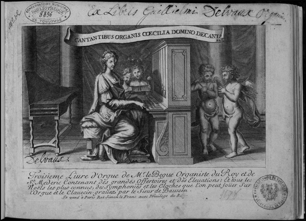 Title page of Nicolas Lebègue's Troisieme livre d'orgue, published 1685 - hence the PD indication. Found here: [1]